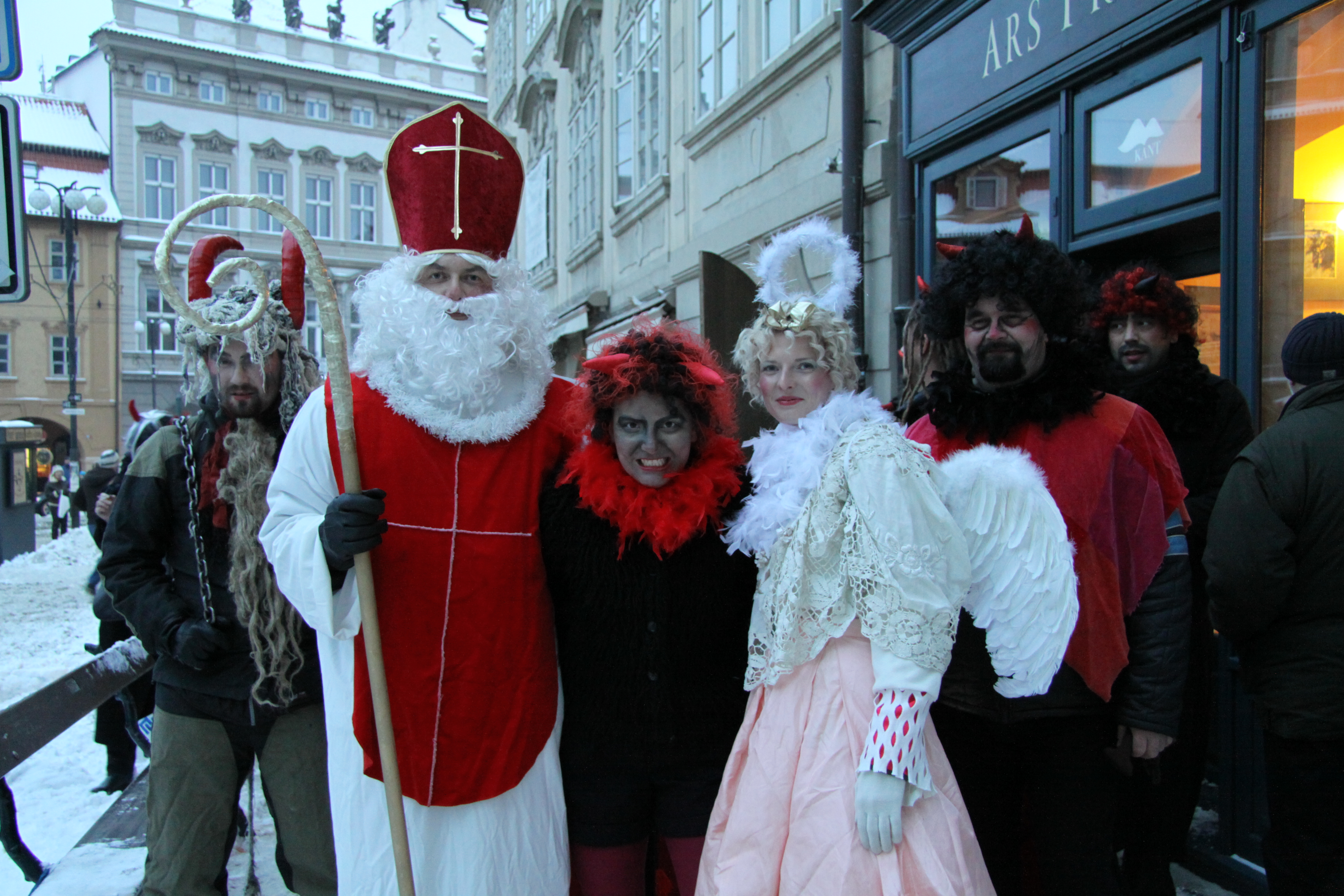 Traditional celebration of Saint Nicholas day in Czech Republic, Malá Strana, Prague Personality rights warning Although this work is freely licensed or in the public domain, the person(s) shown may have rights that legally restrict certain re-uses unless those depicted consent to such uses. In these cases, a model release or other evidence of consent could protect you from infringement claims.